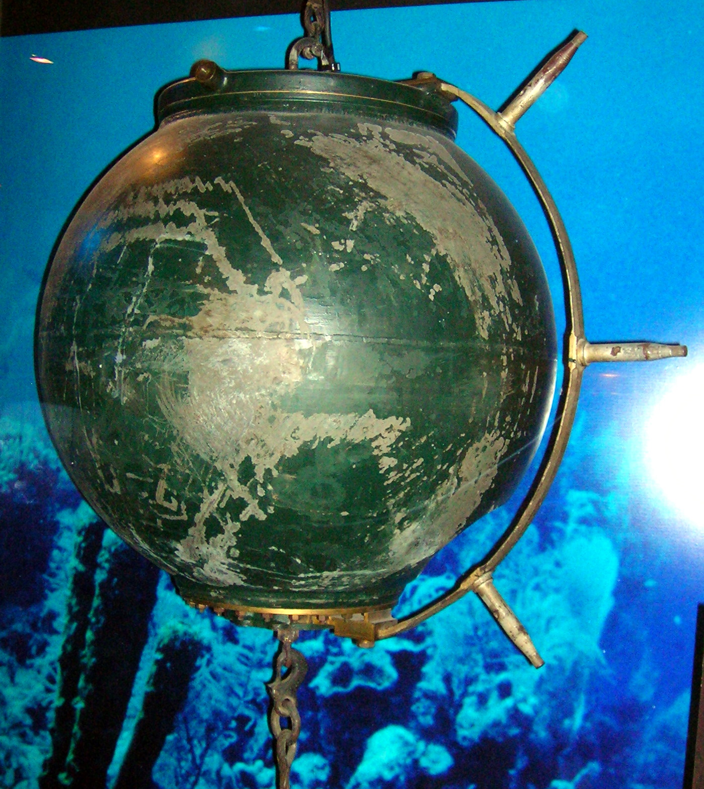 Underwater mine Bréguet n°887, 1914.